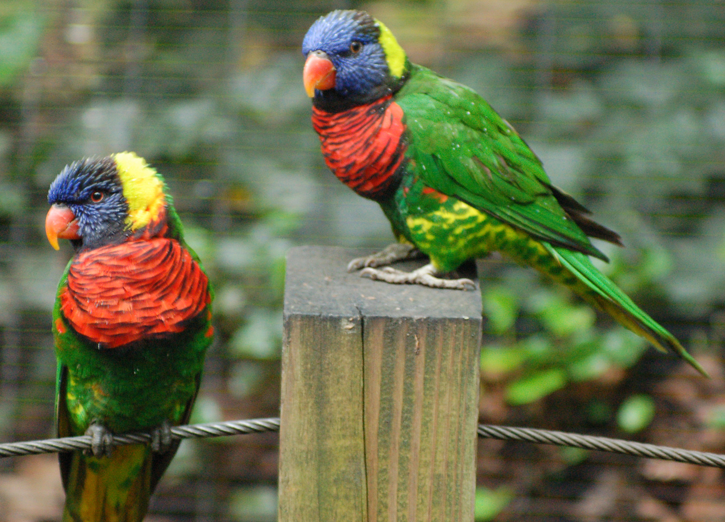 A photograph of a lorikeet (Trichoglossus en sp.) at the Philadelphia Zoo.